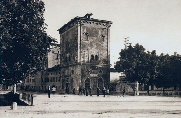 Porta San Lazzaro